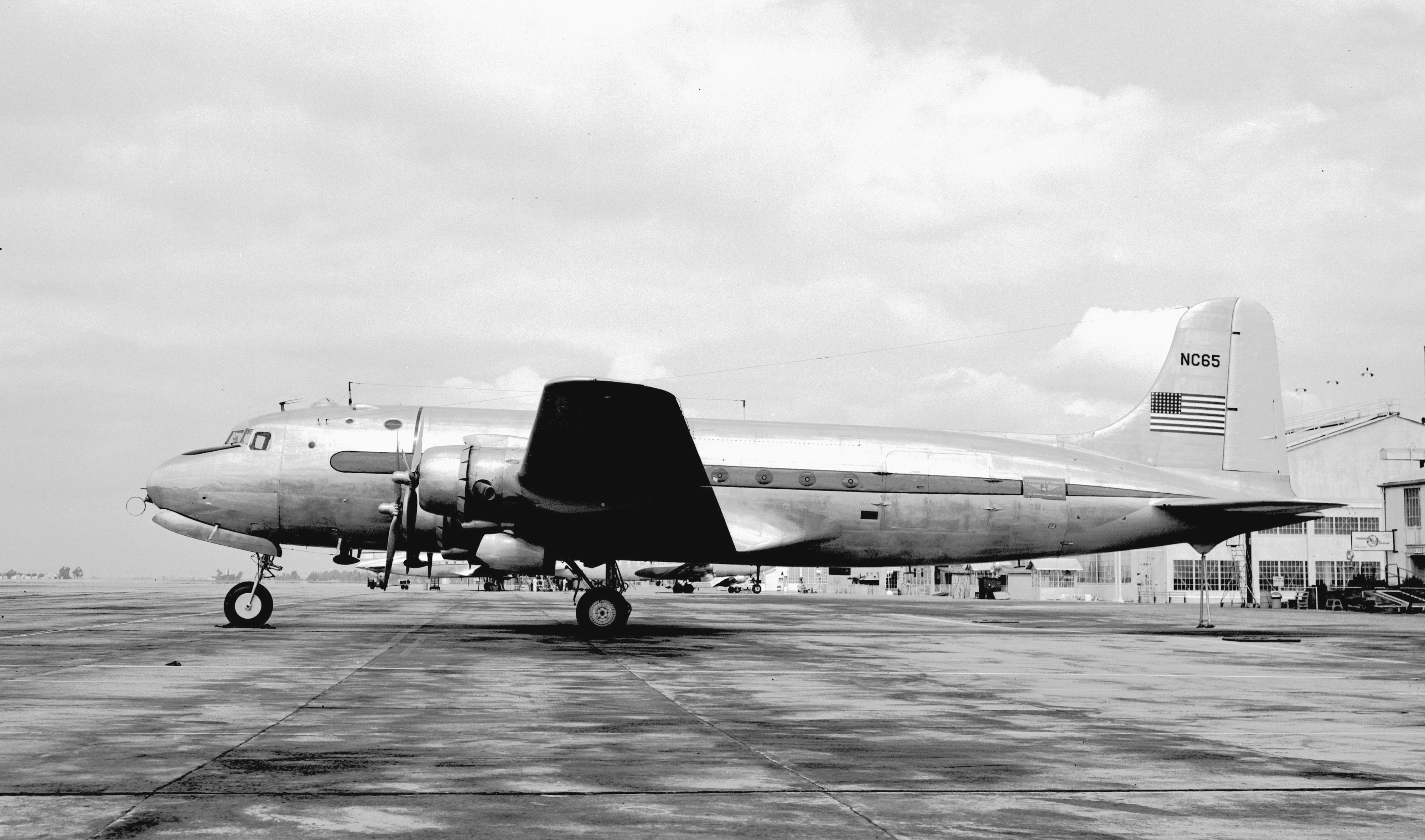 This was one of those "collector's items" at the time and I never saw one again. There have been many CAA/FAA DC-3s around but not another DC-4. This is at Oakland in August 1947.